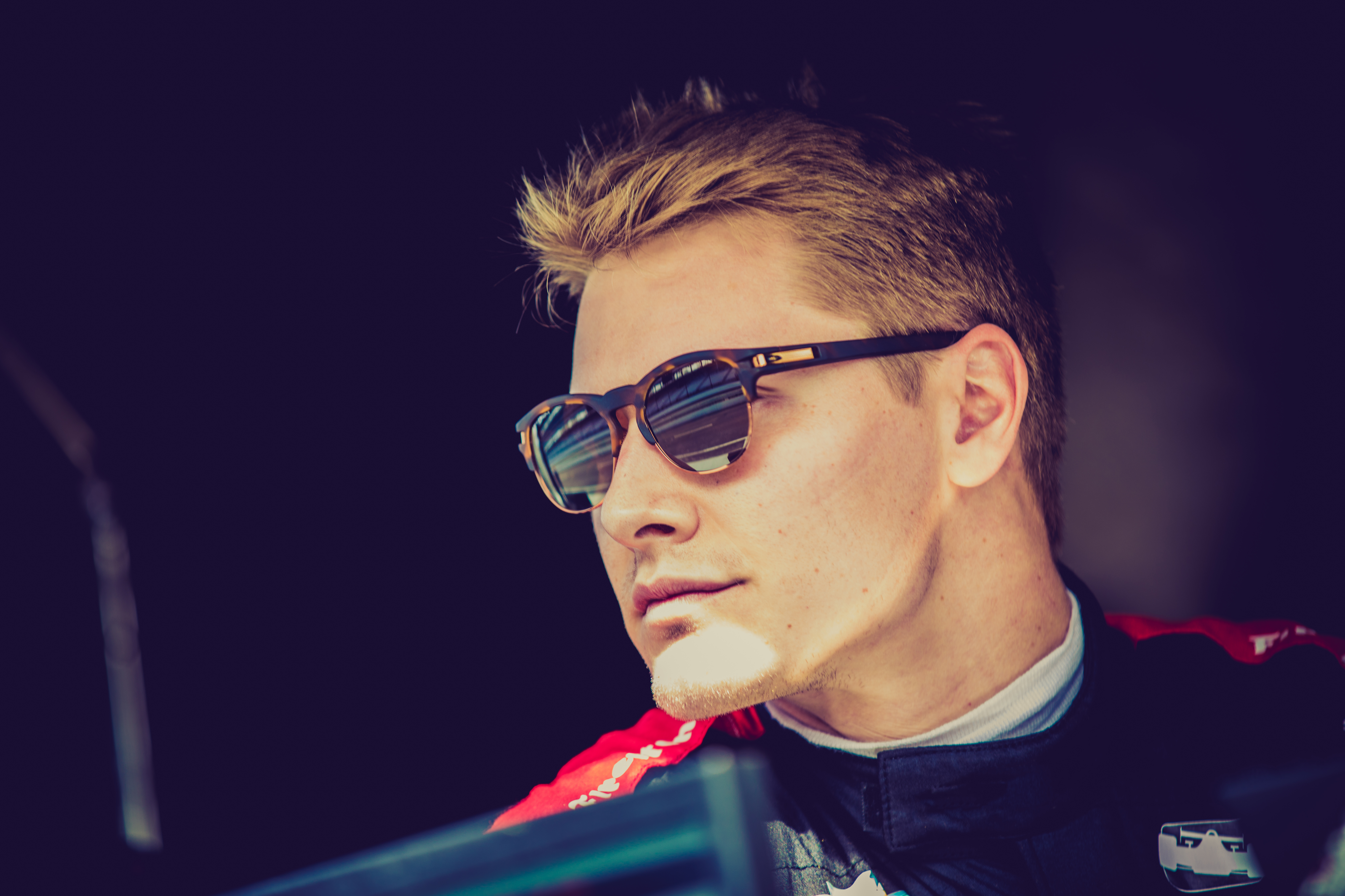 Josef Newgarden | 2017 Verizon IndyCar Series Champion